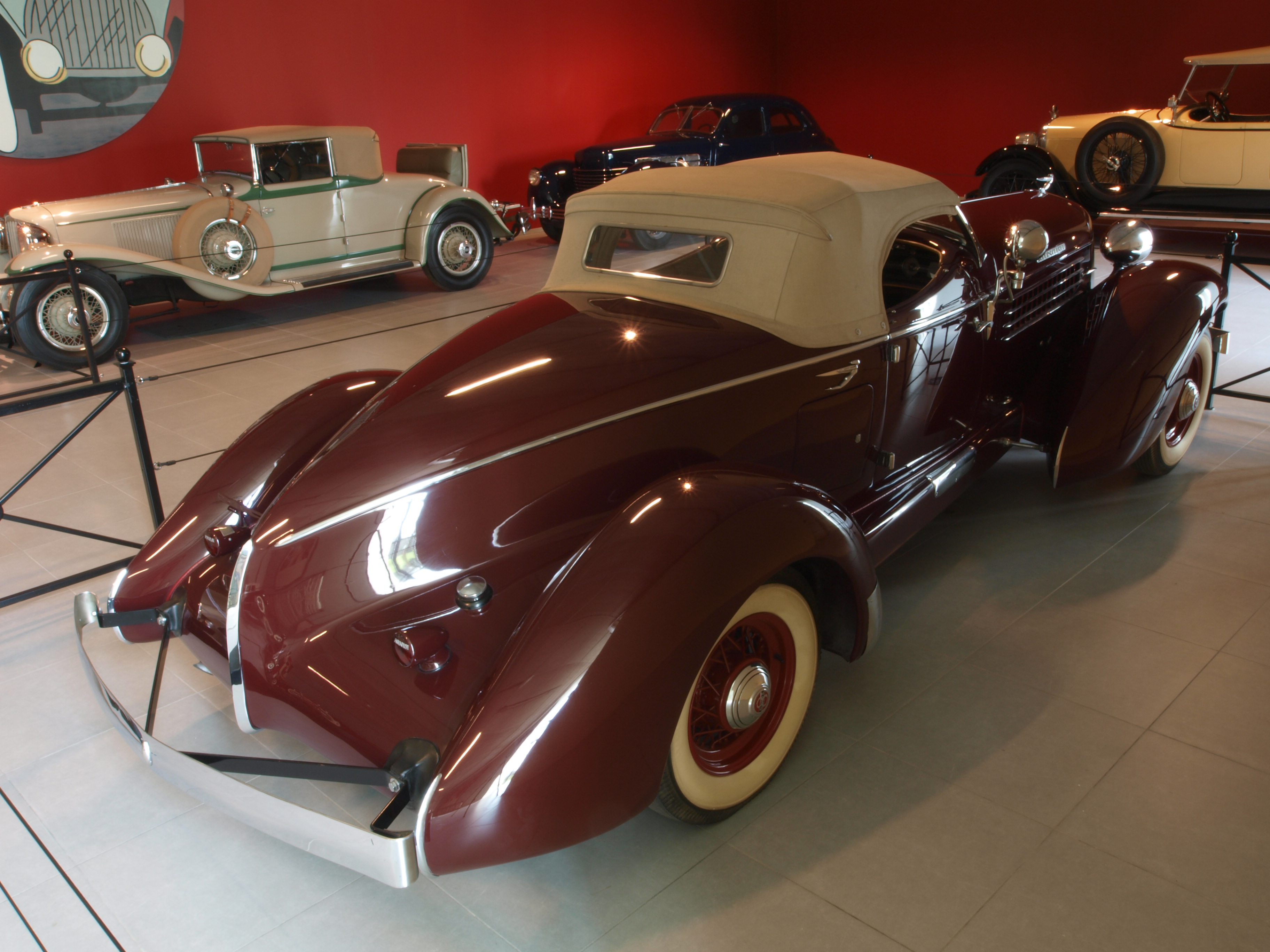 Photographed at the Louwman museum / Louwman Collection, The Netherlands.